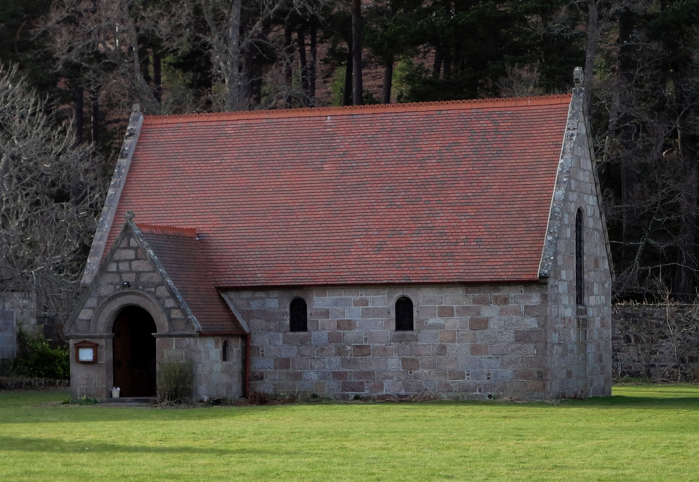 Braemar, Mar Lodge Estate, St Ninian's Chapel - exterior fabric